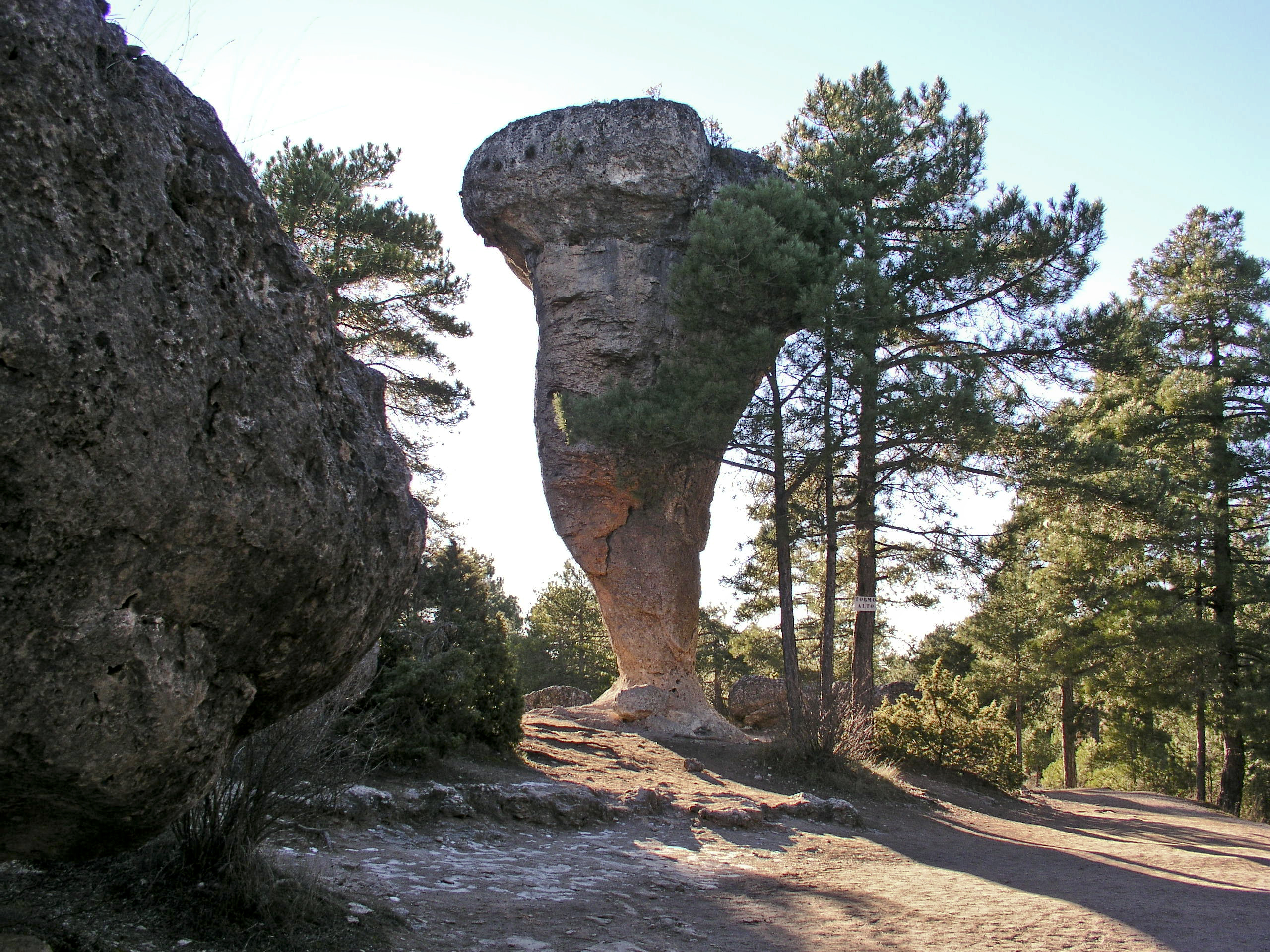 La Ciudad Encantada, Province of Cuenca, Spain. Nature reserve. Karst formation. "Tormo alto"